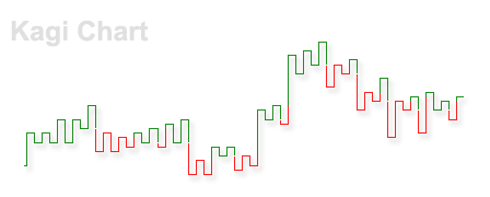 Bill Warner.